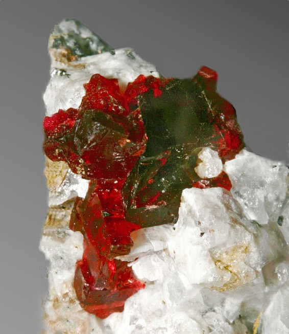 Villiaumite - Locality: Poudrette quarry (Demix quarry; Uni-Mix quarry; Desourdy quarry), Mont Saint-Hilaire, Rouville RCM, Montérégie, Québec, Canada - FOV 1 3/4 x 2 mm